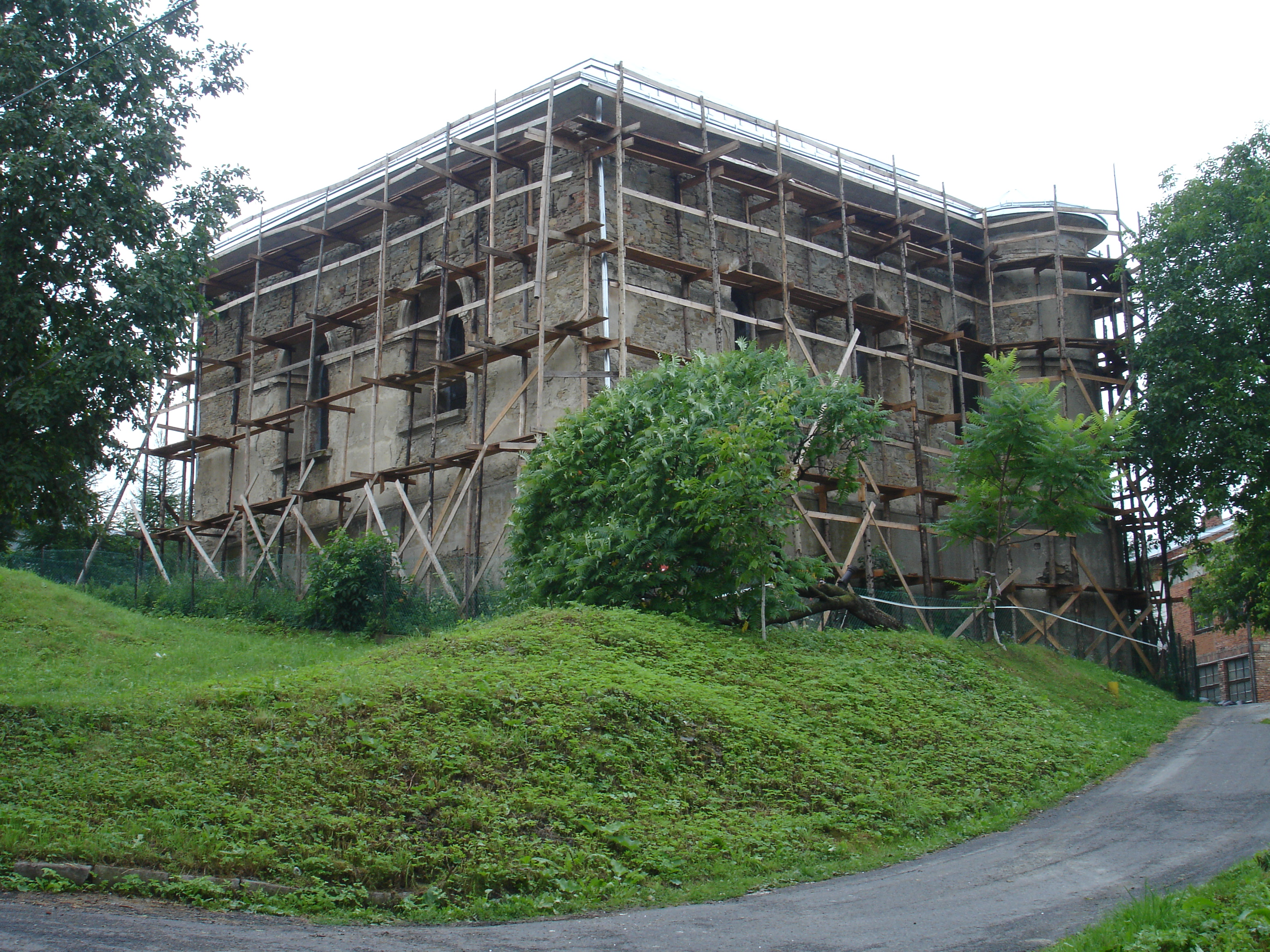 The external view of the synagogue in Rymanów, Poland